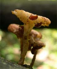 Versión reducida. Neotriplax lewisii (Crotch, 1873)(Coleoptera: Erotylidae) feeding on Favolus arcularius (Batsch : Fries) Ames (Polyporaceae). Loc: Yokohama, Kanagawa Prefecture, Japan